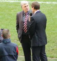 England Argentina